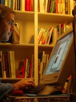 picture of predrag